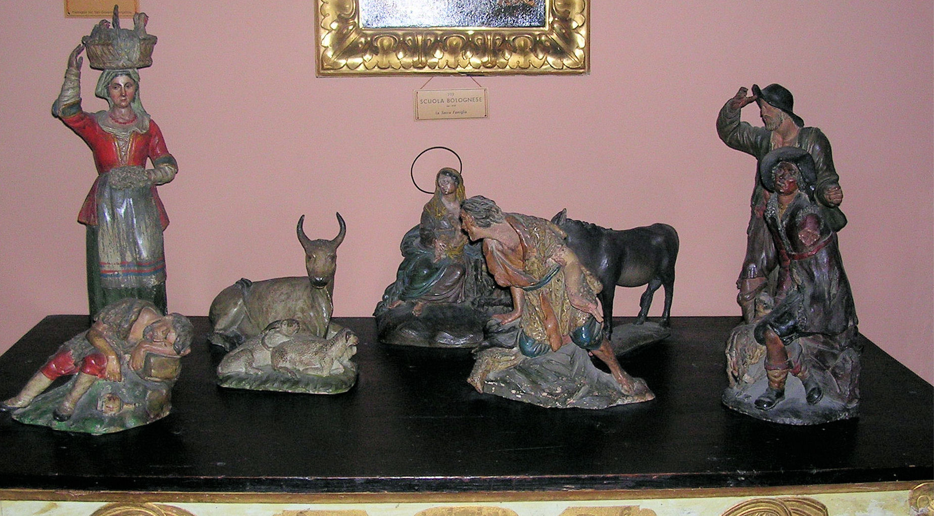 Sculpture for nativity scene in Museo Davia Bargellini (Bologna, Italy)